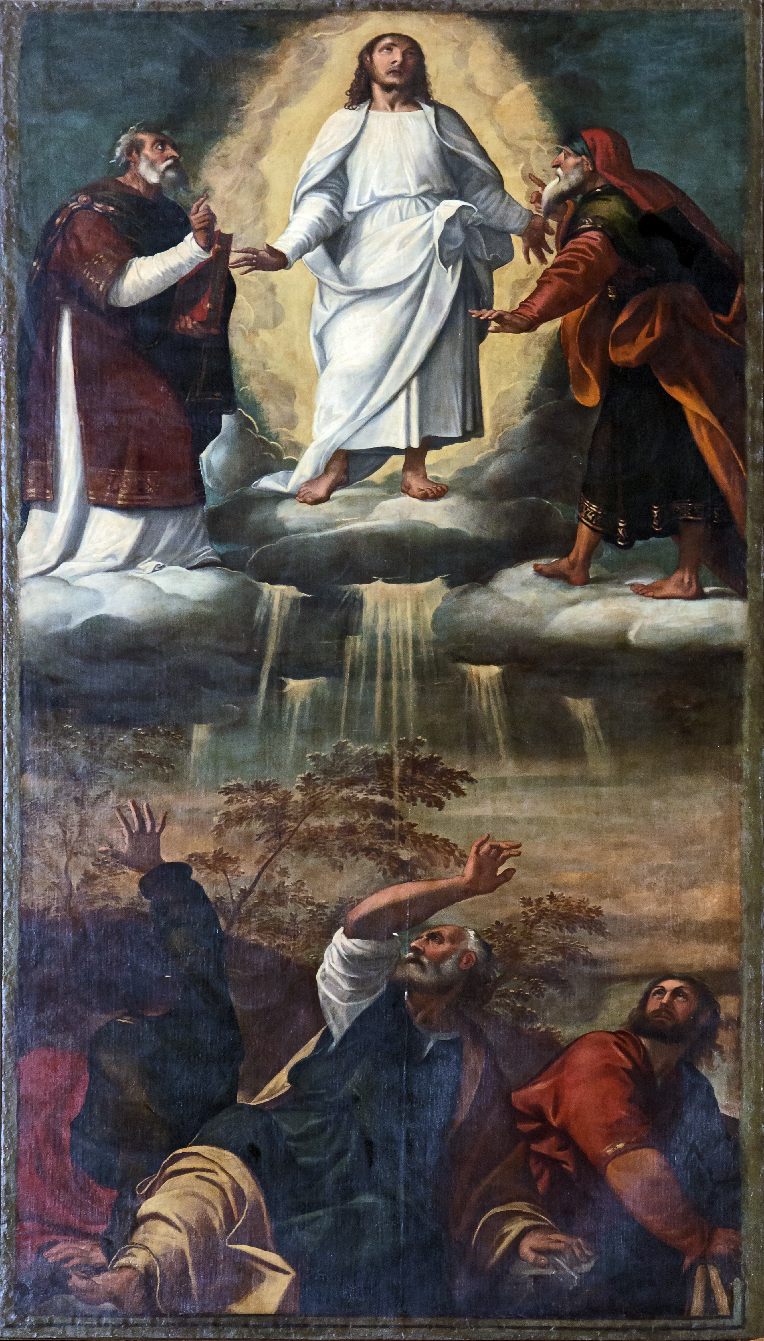 San Salvatore, Venice - Organ - Doors of the organ by Francesco Vecellio - Transfiguration of Jesus